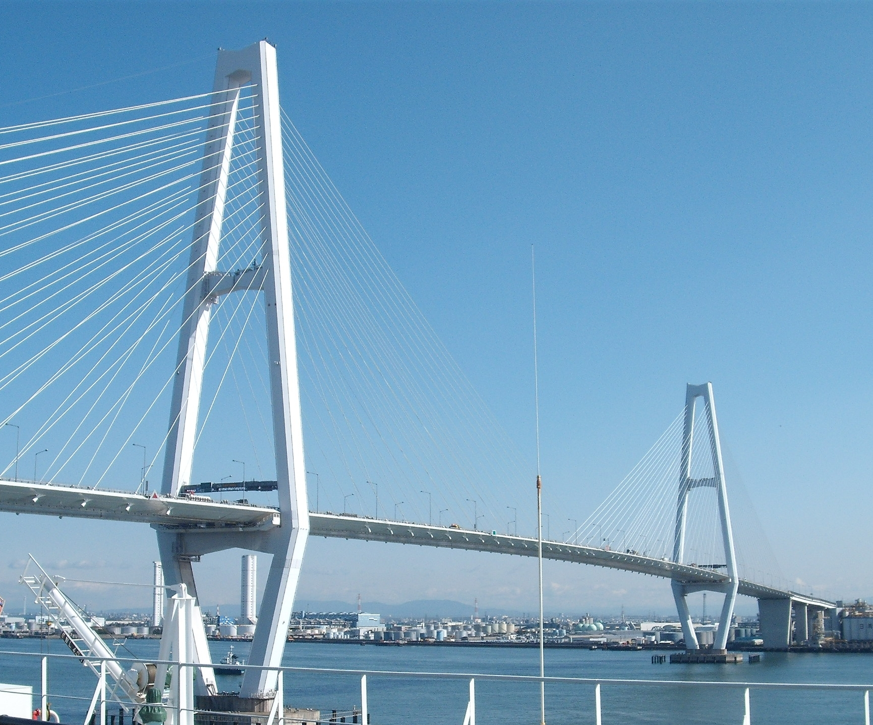 Meiko-Chuo Bridge in Nagoya